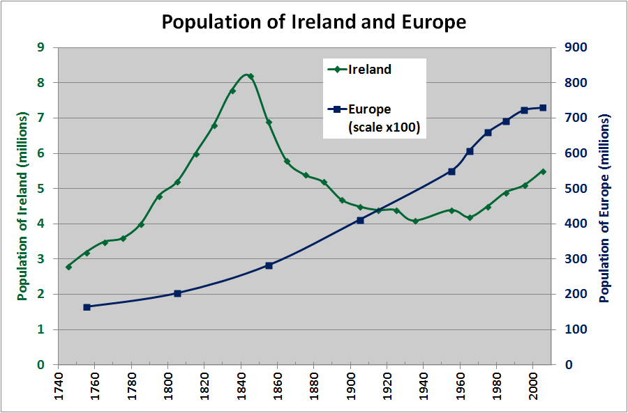 Ireland (the island) and Europe's indexed population (1750-2006).